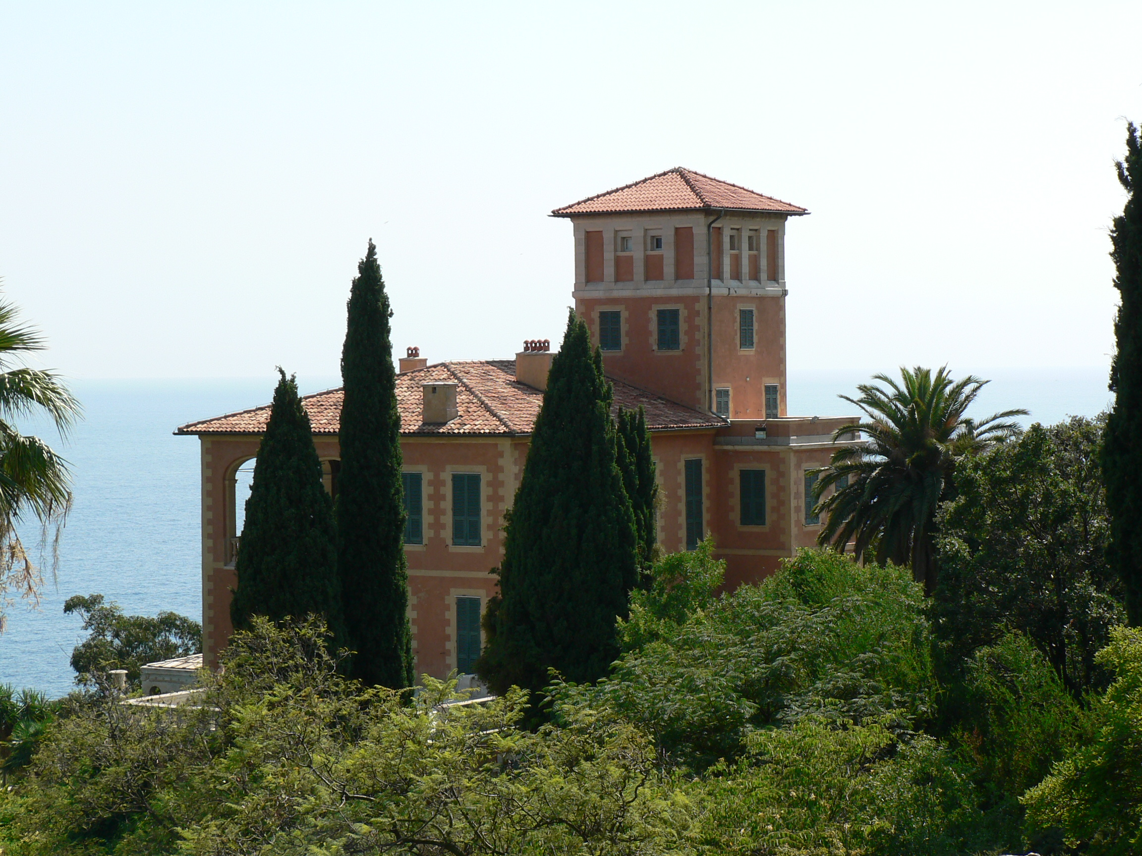 Botanical Garden Hanbury at Ventimiglia, Italy